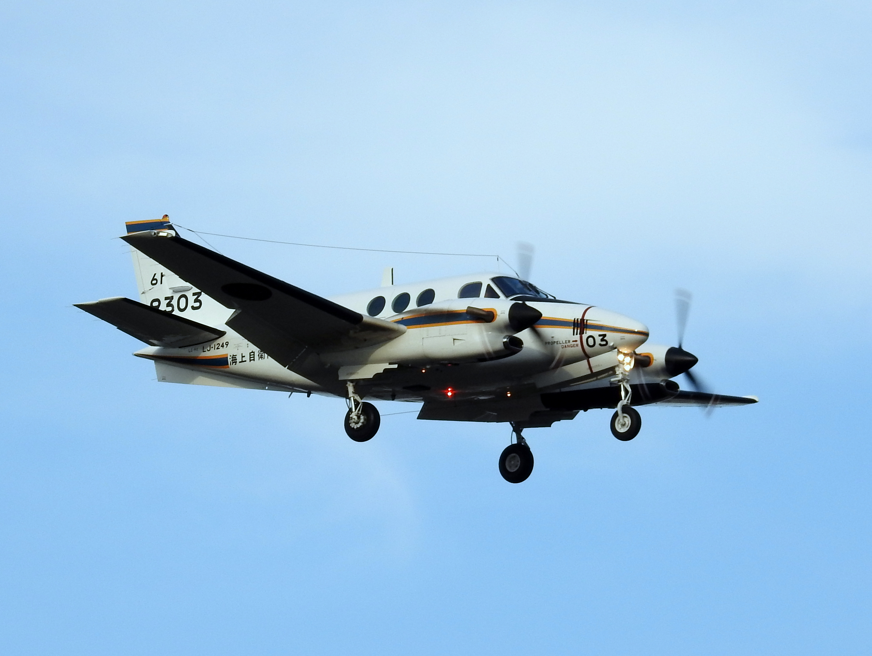 JMSDF LC-90 (Beechcraft C-90) landing at Naval Air Facility Atsugi